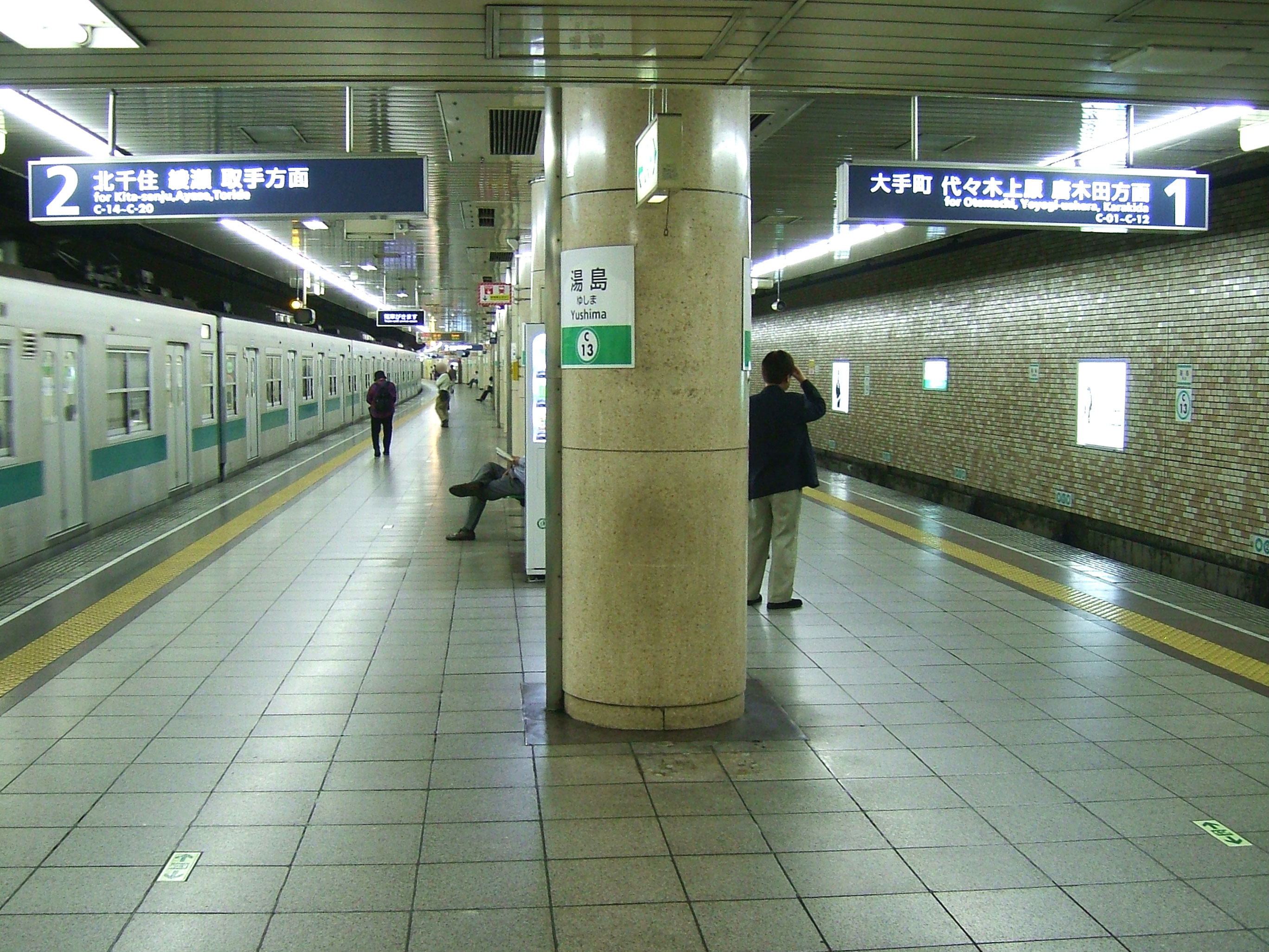 Yushima Station platform (Tokyo Metro Chiyoda Line)